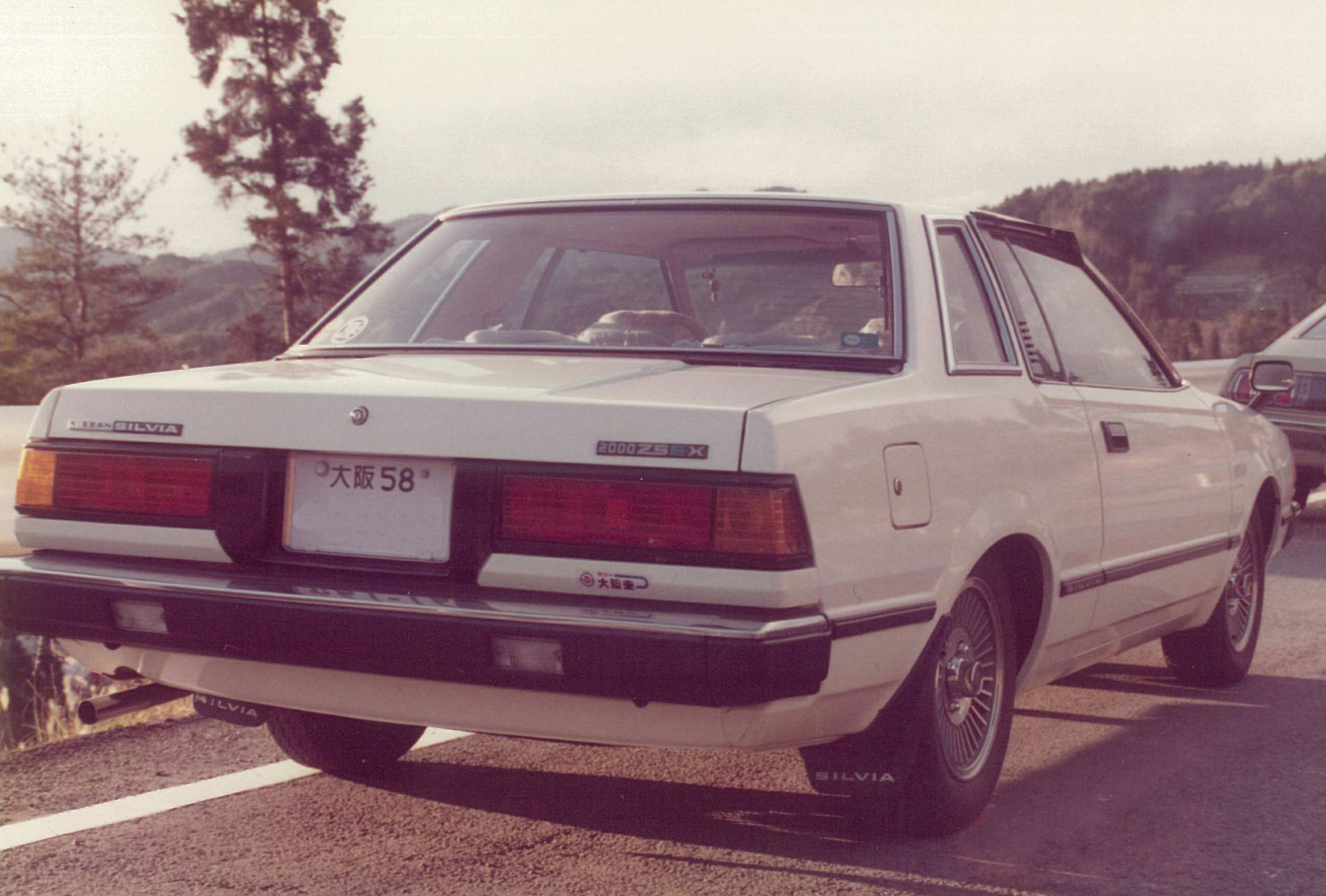 It is My Car which it photographed in Osaka.